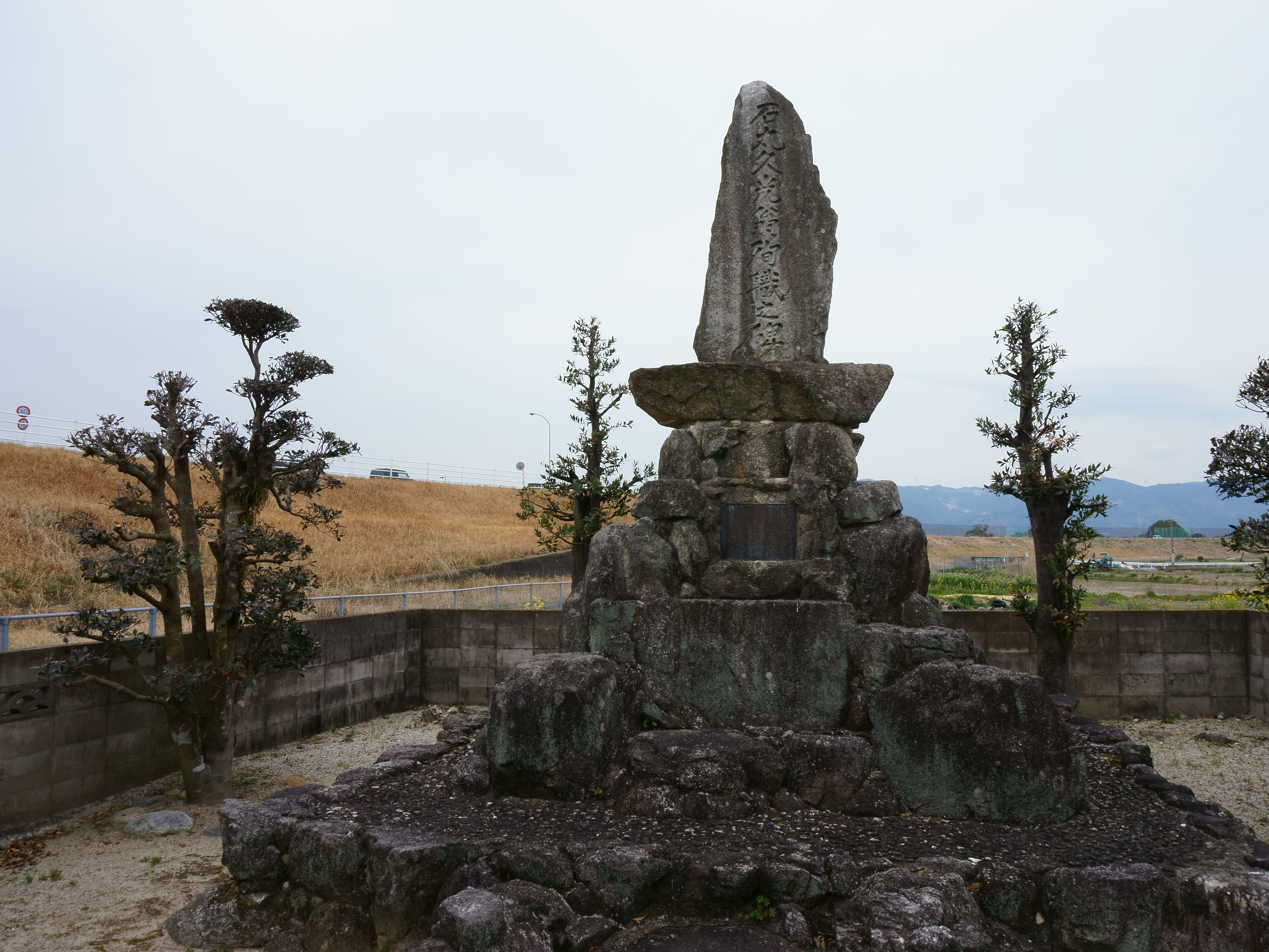 A monument of 1953 flood victim, at side of Kase River, in Nabeshima, Saga city, Saga prefecture.